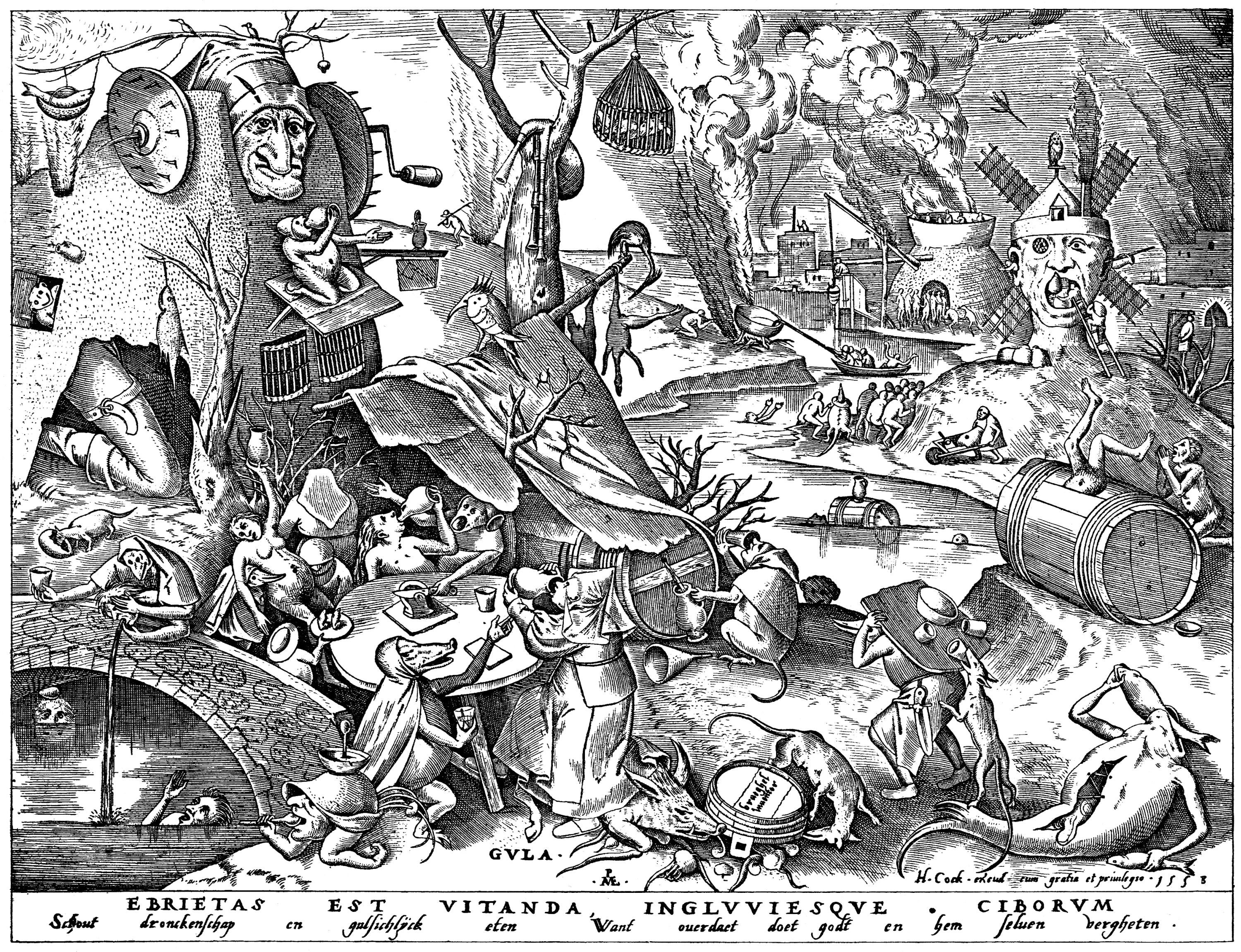 The Seven Vices, also the Seven deadly sins: Greed (Avaritia), Acedia or depression without joy (Disidia), Gluttony (Gula), Envy (Invidia), Wrath (Ira), Pride (Superbia) and Extravagance or Lechery (Luxuria). By Pieter Bruegel, published by Hieronymus Cock. The series is completed by a final depiction of the doom. See also: Brueghel: The Seven Virtues